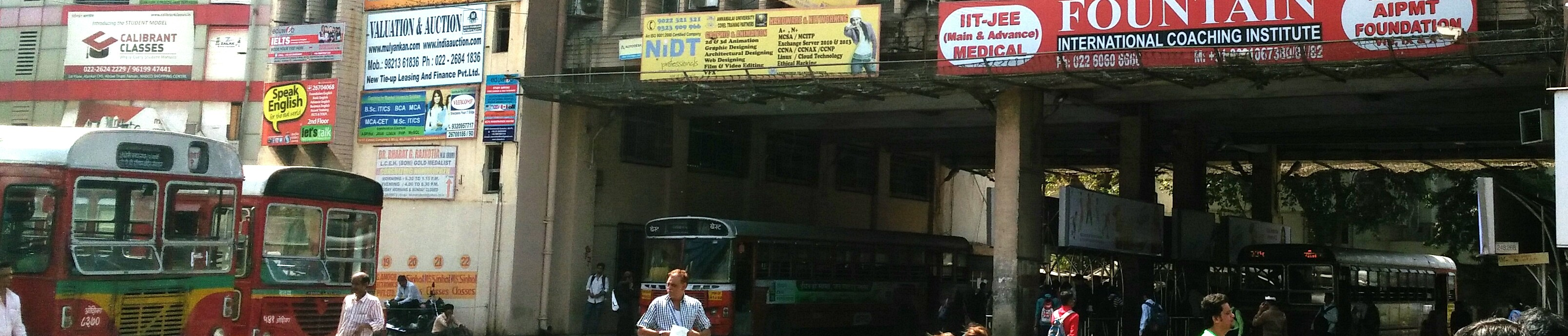 Andheri station's bus terminal panoramic view.